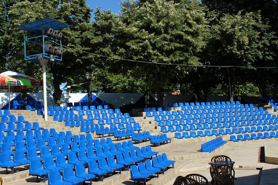 Sozopol